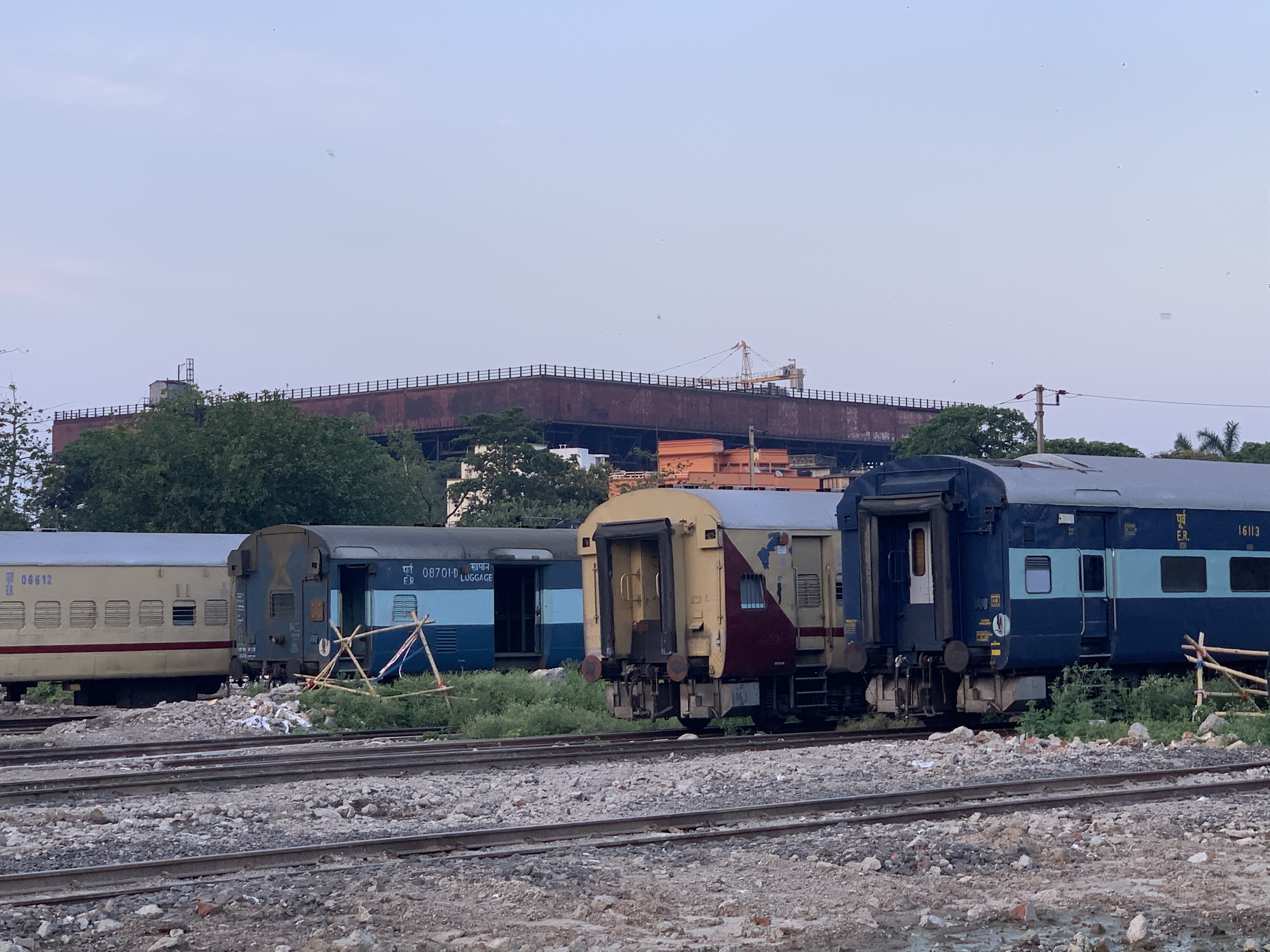 View of Tala water tank from Tala Bridge aka Hemanta Setu, this Photographs has been taken during demolition of this bridge under Corona crisis in Kolkata, West Bengal, India.